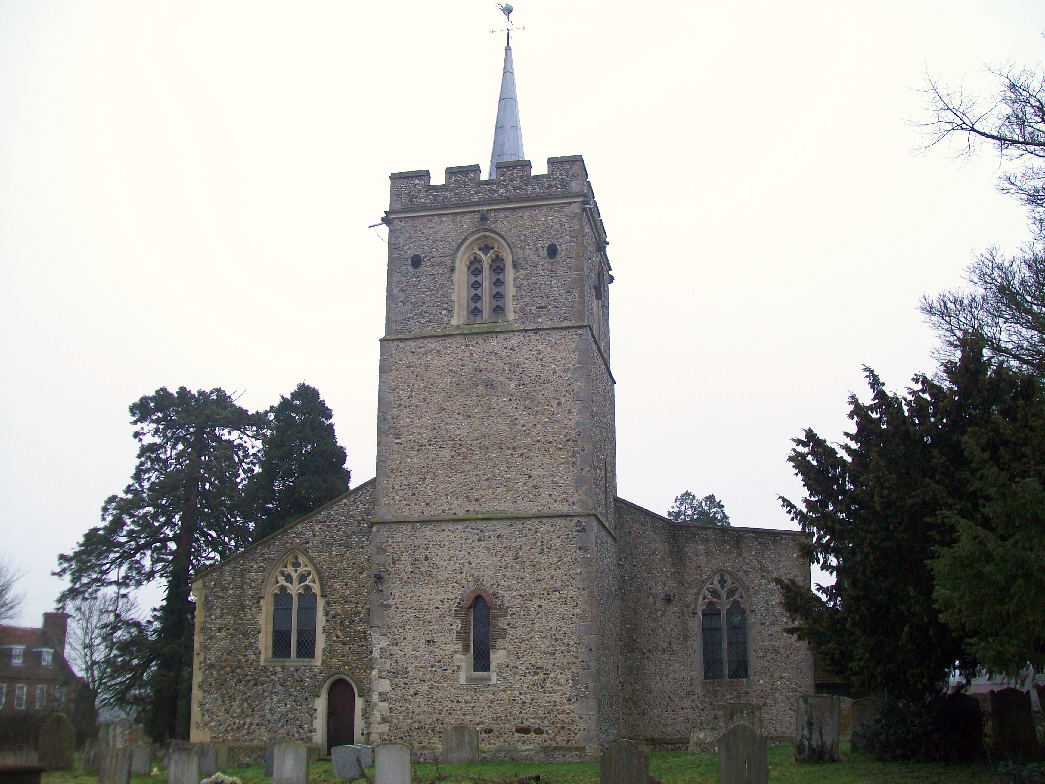 St Nicholas' parish church, Great Munden, Hertfordshire, seen from the west